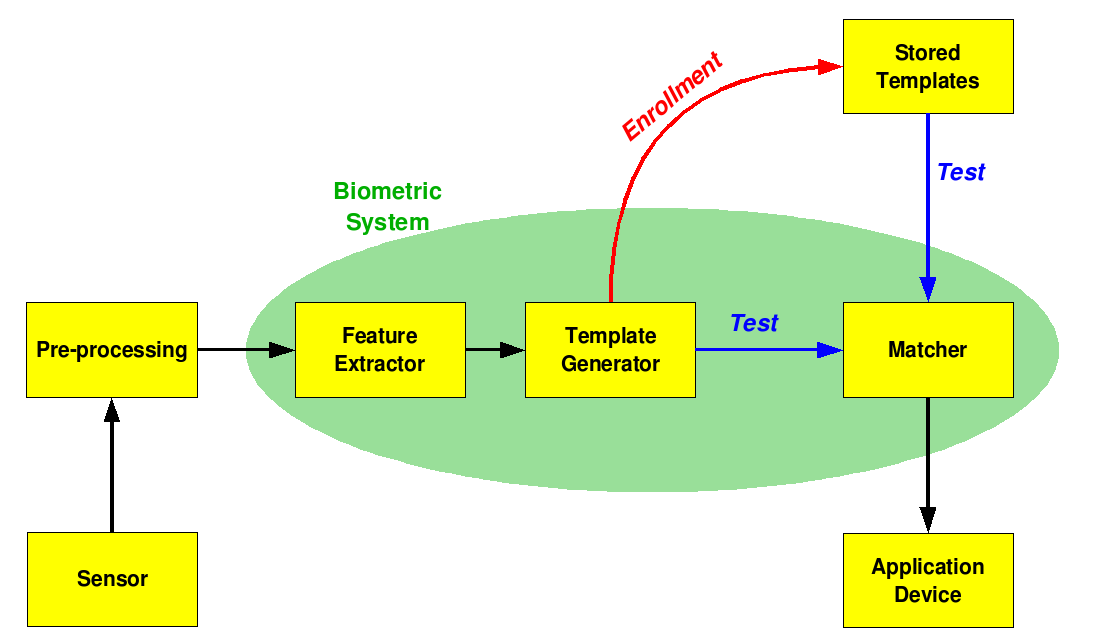 Simple diagram showing the main logical block of a biometric system